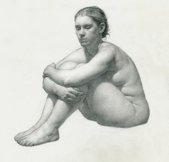 Seated Nude by Jacob Collins